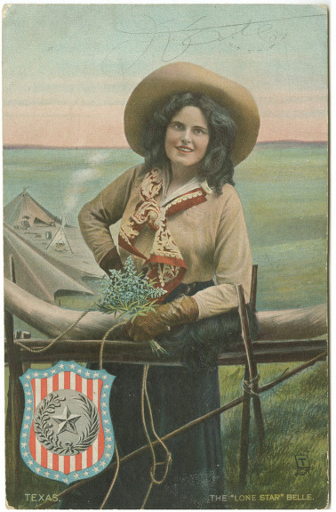 Title: The "Lone Star" Belle Date: ca. 1908 Part Of: Collection of cowgirl postcards Physical Description: 1 print (postcard): color File: ag1986_0585_26c.tif Rights: Please cite Southern Methodist University, Central University Libraries, DeGolyer Library when using this image file. A high-quality version of this file may be obtained for a fee by contacting . For more information, see: View U.S. West: Photographs, Manuscripts, and Imprints